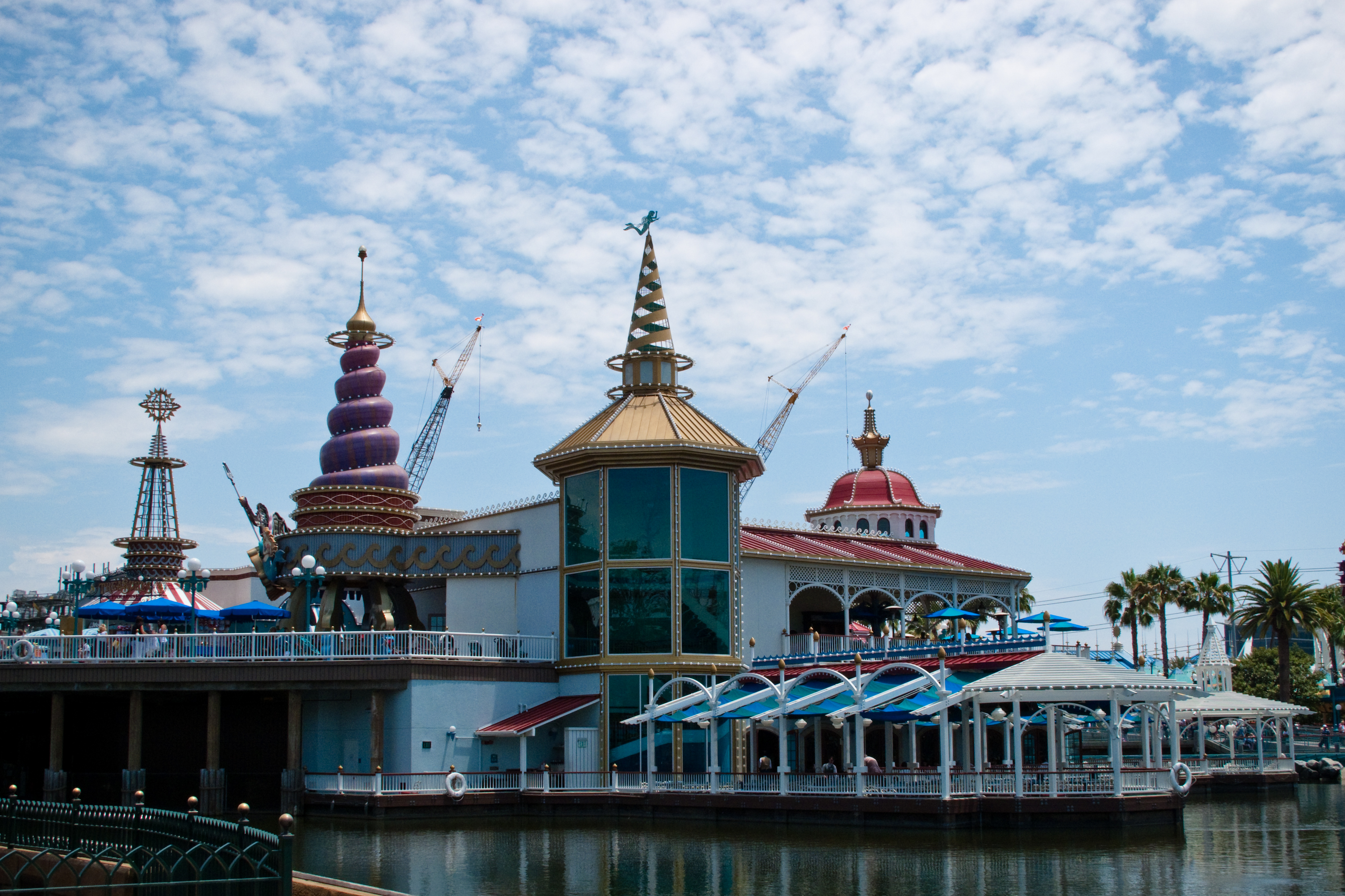 A look at Ariel's Grotto from Paradise Park.